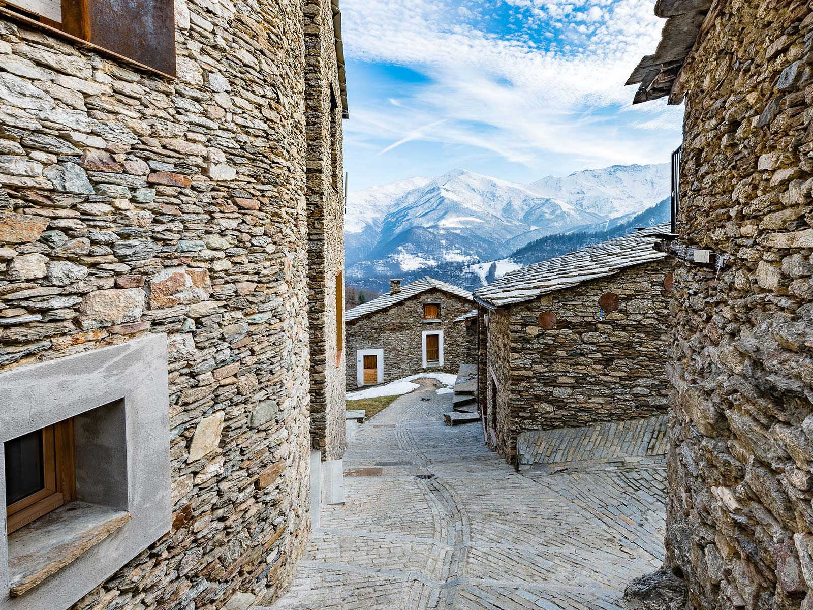 Ostana, Town view